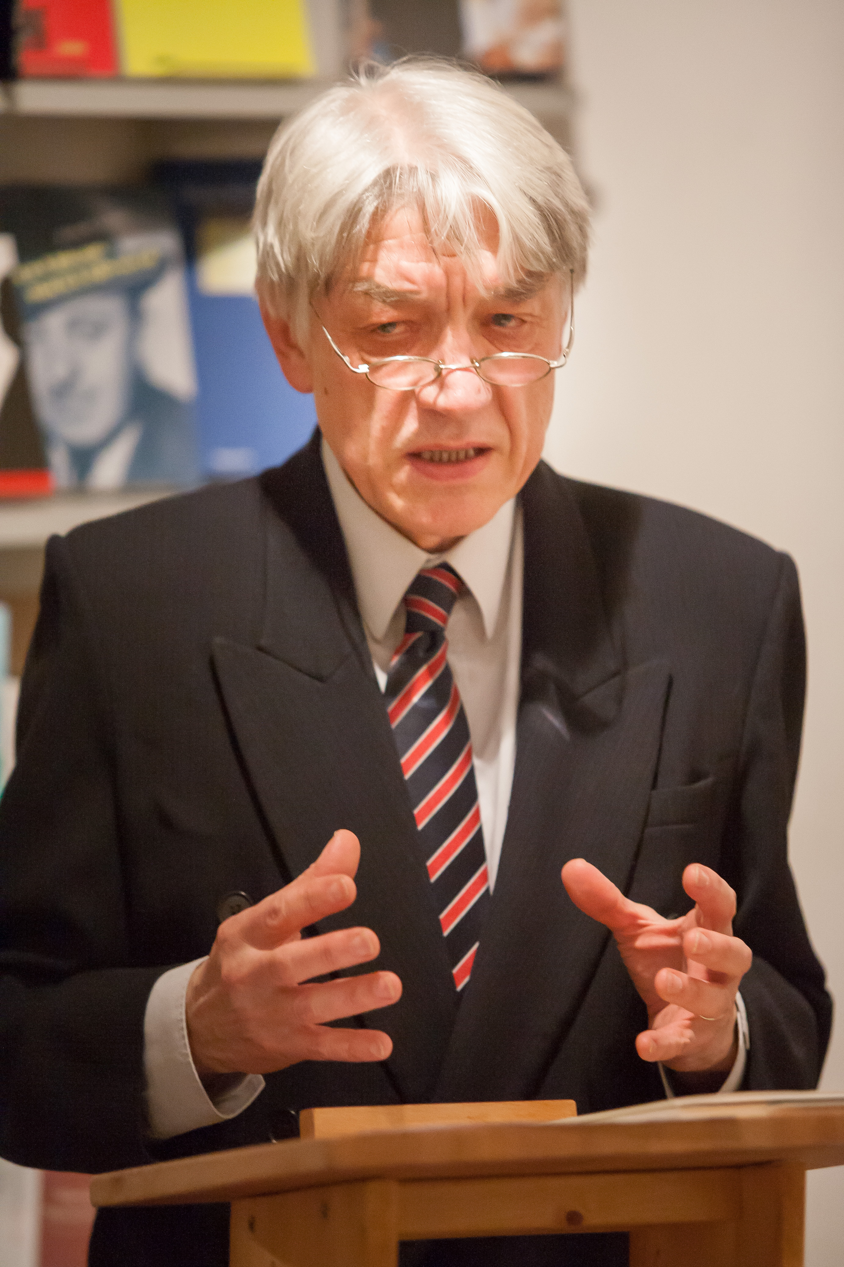 Portrait of Wolfgang Kubin